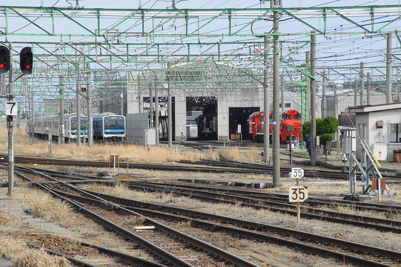 209 series EMUs awaiting rebuilding stored near Naoetsu Station